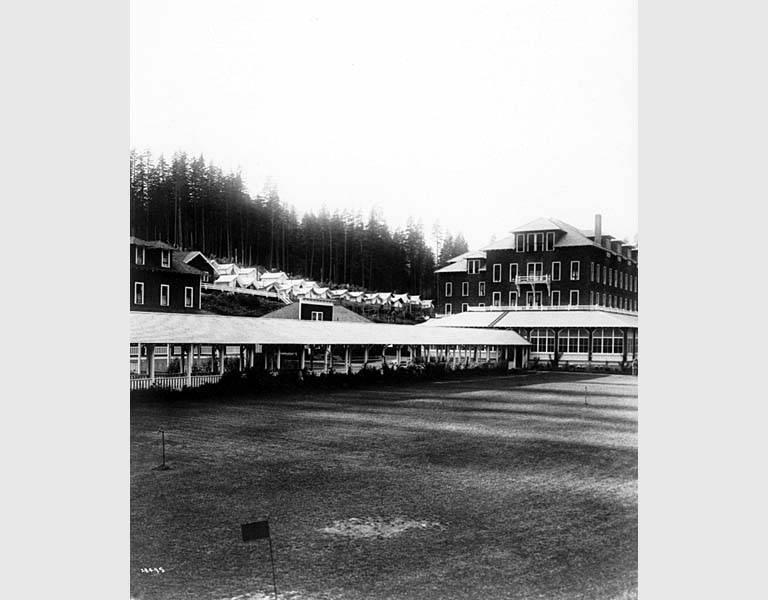 Subjects (LCTGM): Resorts--Washington (State)--Olympic National Park; Olympic National Park (Wash.)